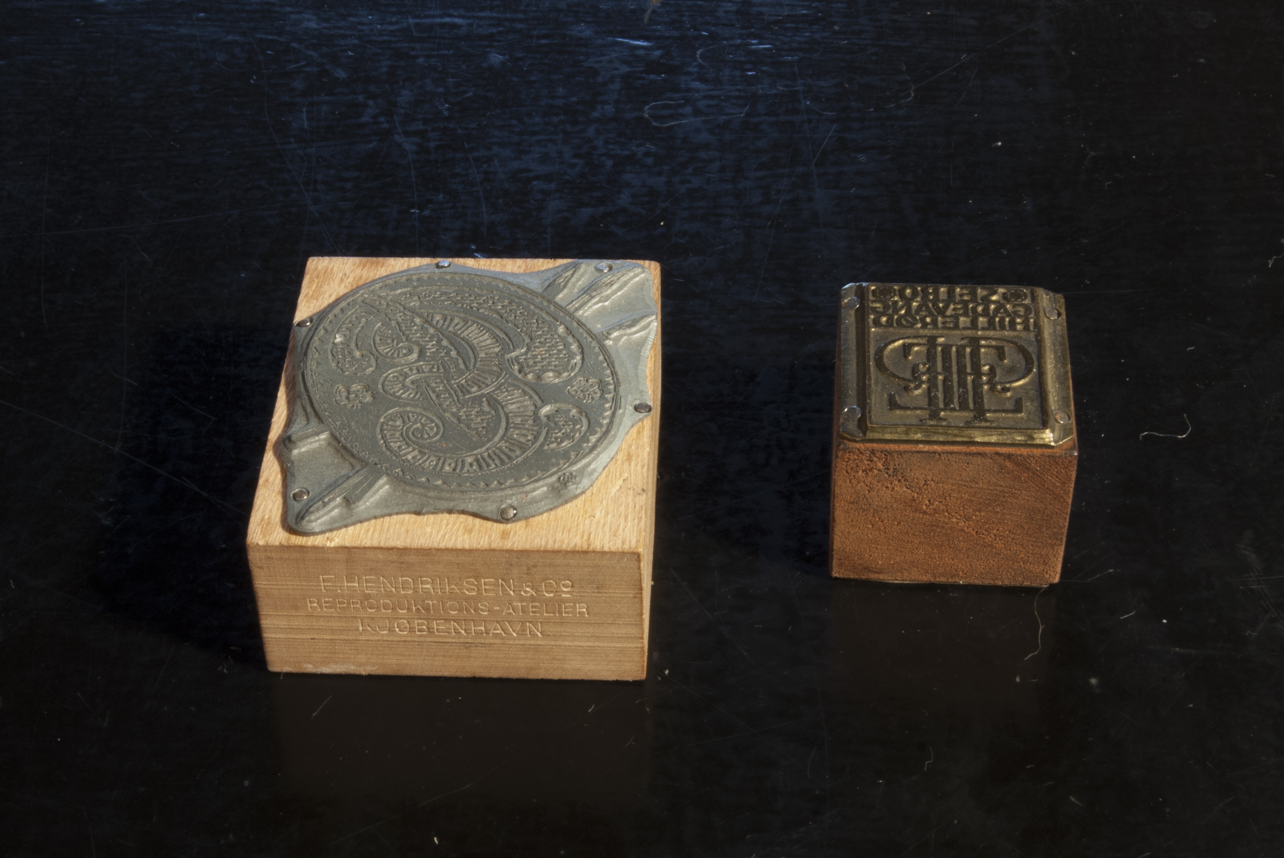 Two metal printing blocks, one of zink one of brass mounted on wooden blocks